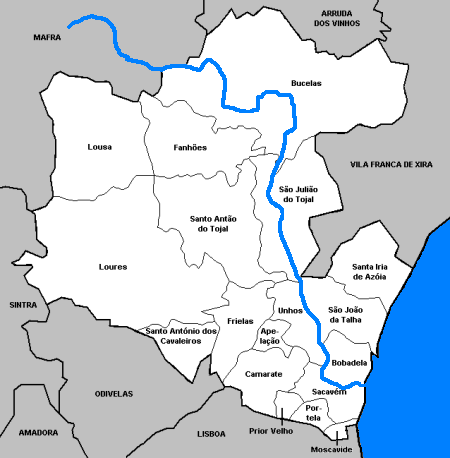 Situation of Trancão River (formerly known as Sacavém River) Created by Brian Boru in August 2005, based on a map created by Jorge Candeias depicting the parishes (freguesias) of Loures.